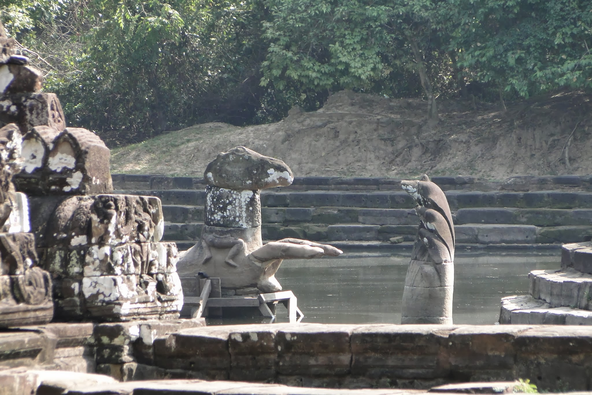 Horse in the water